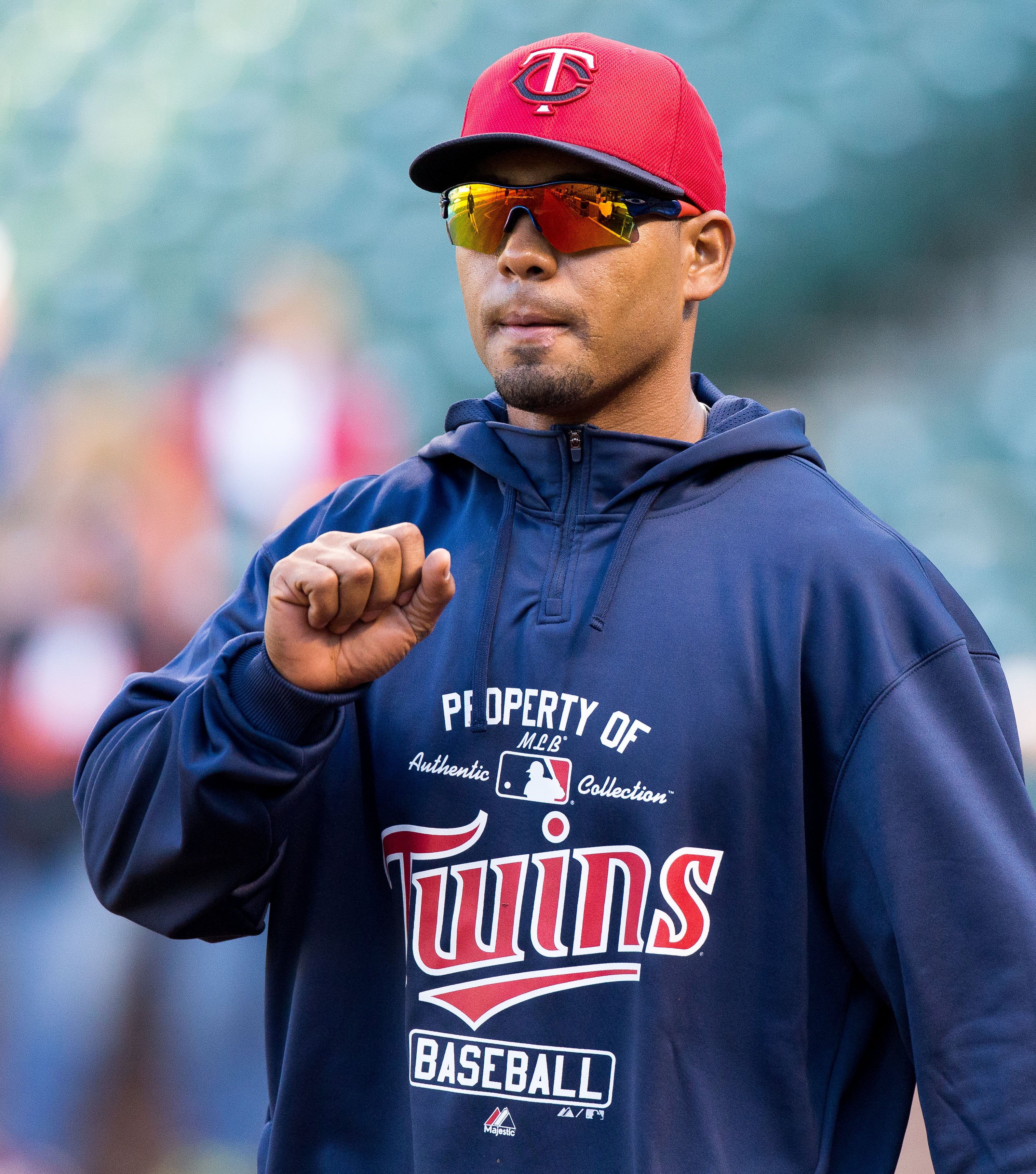 Minnesota Twins outfielder Wilkin Ramírez – Minnesota Twins at Baltimore Orioles April 6, 2013